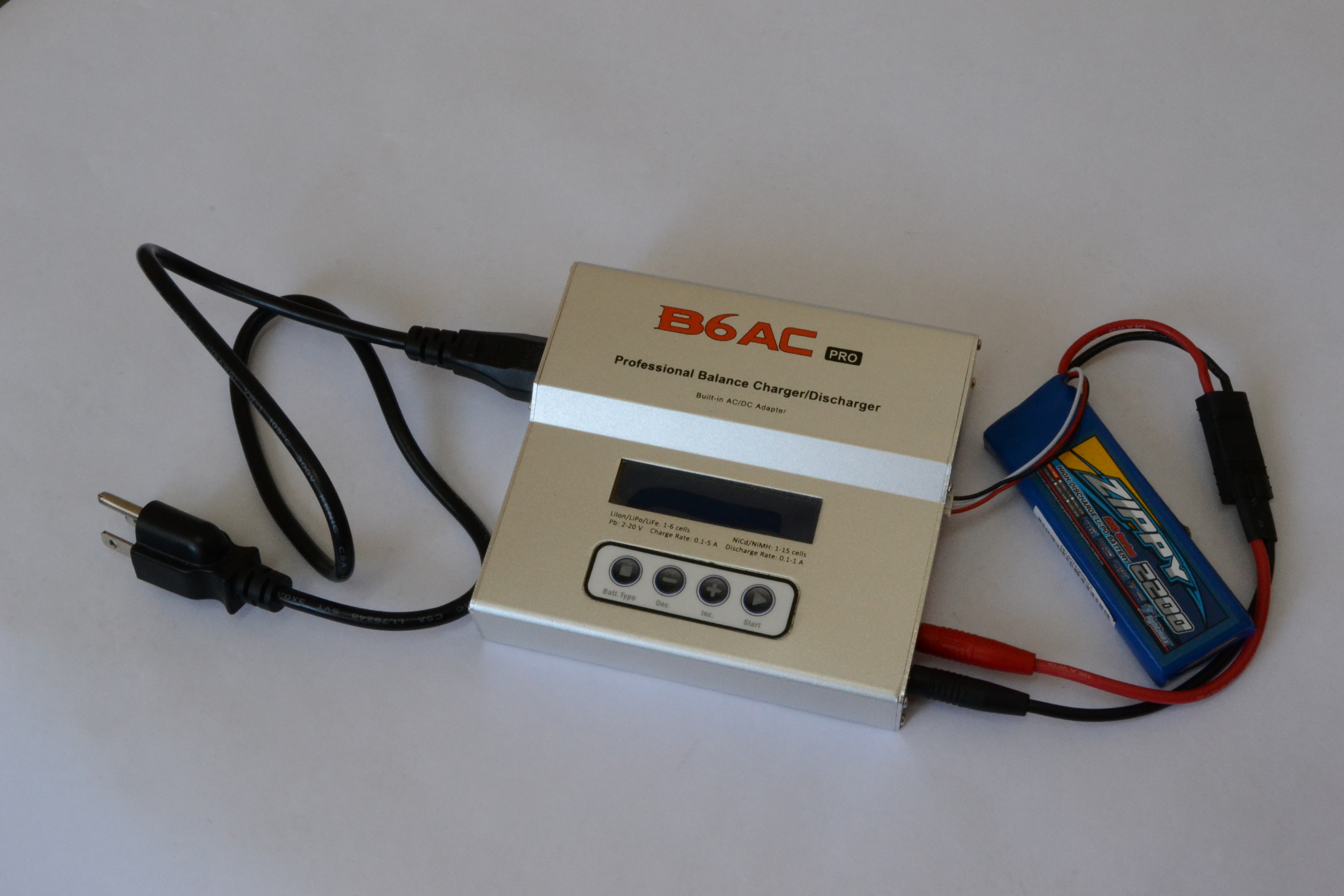 LIPO Charger